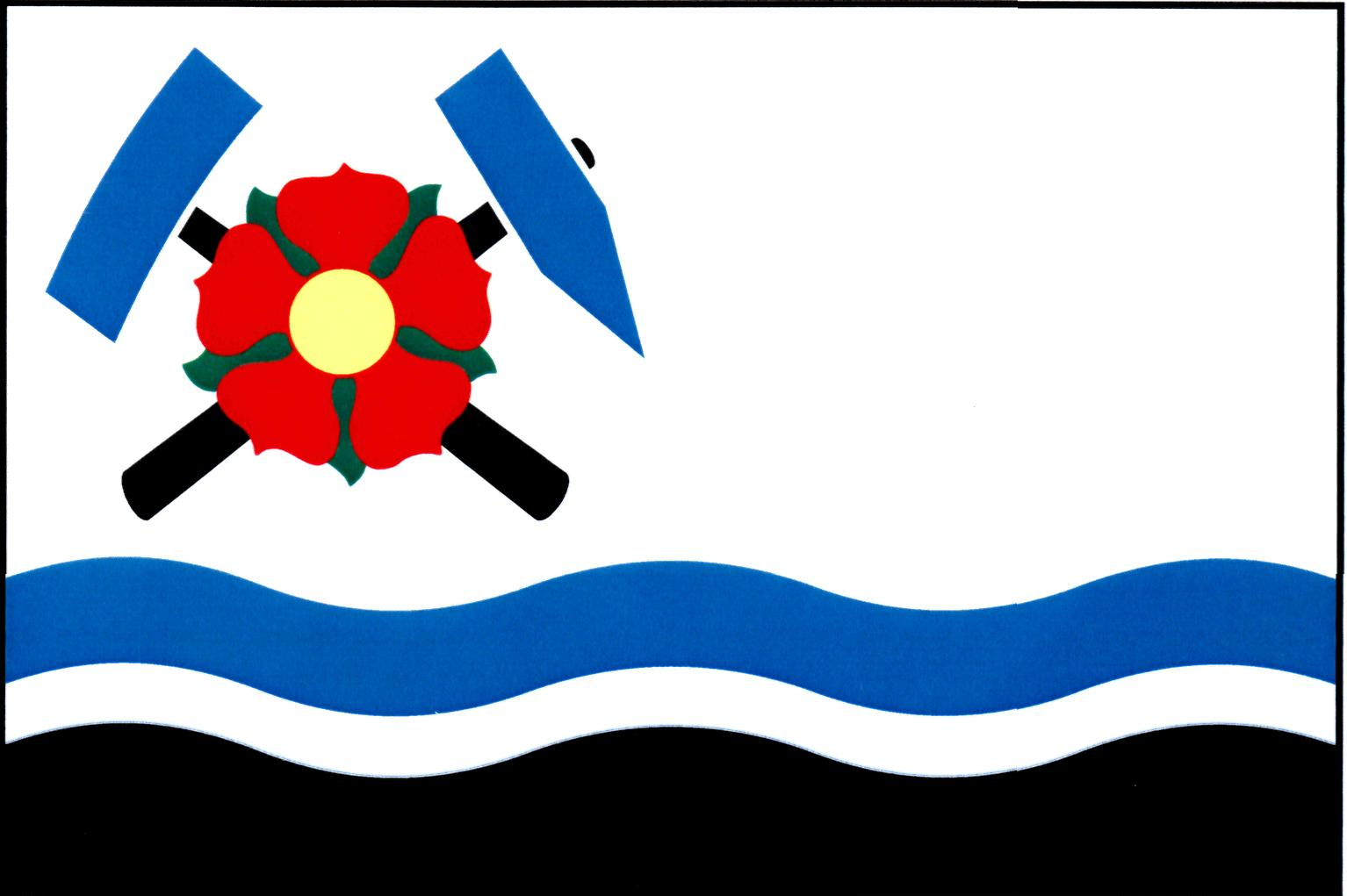 Municipal flag of Černá v Pošumaví village, Český Krumlov District, Czech Republic.